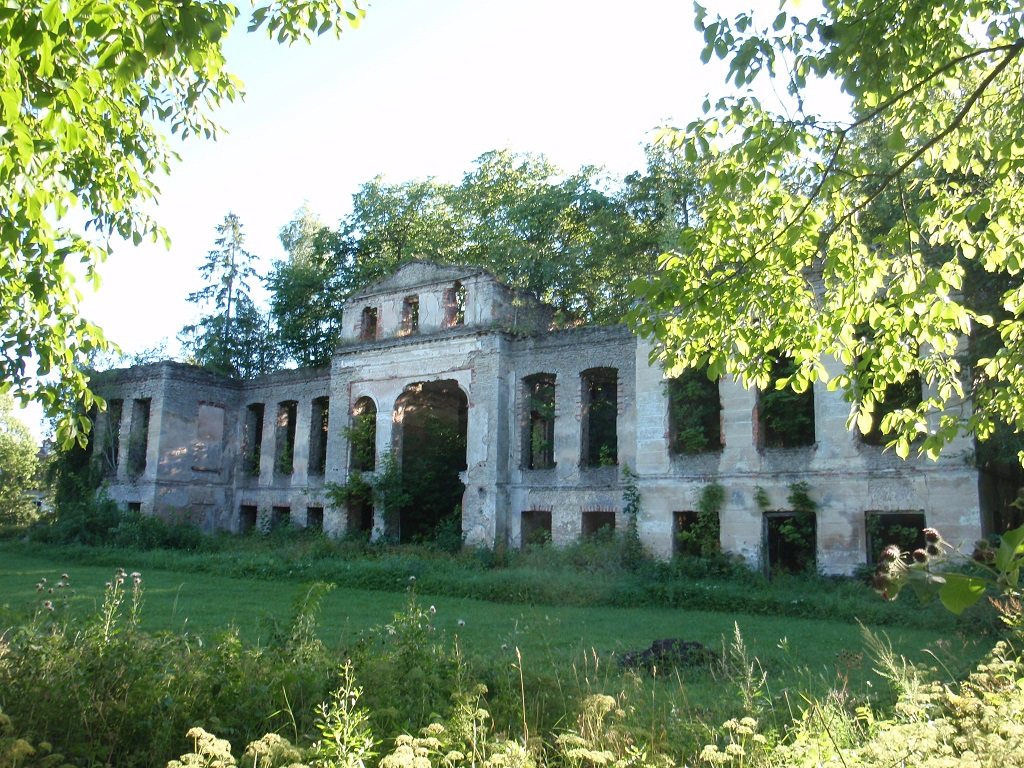 Pada manor house